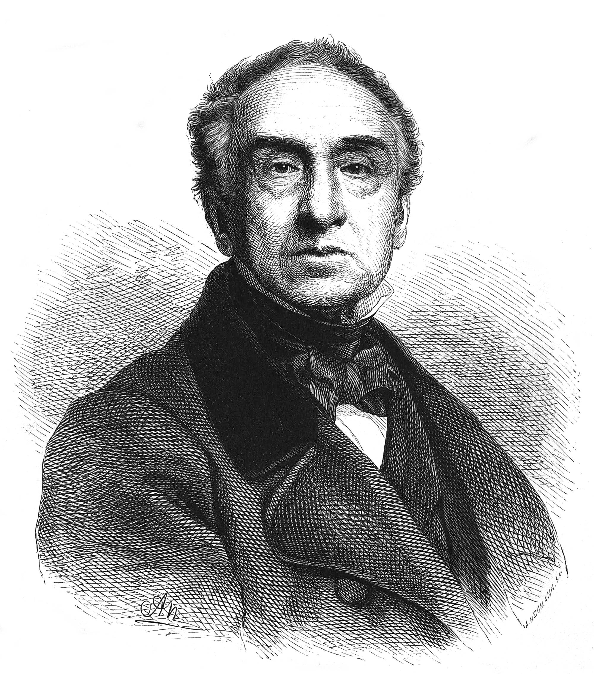 Image from page 293 of book Die Gartenlaube, 1870.